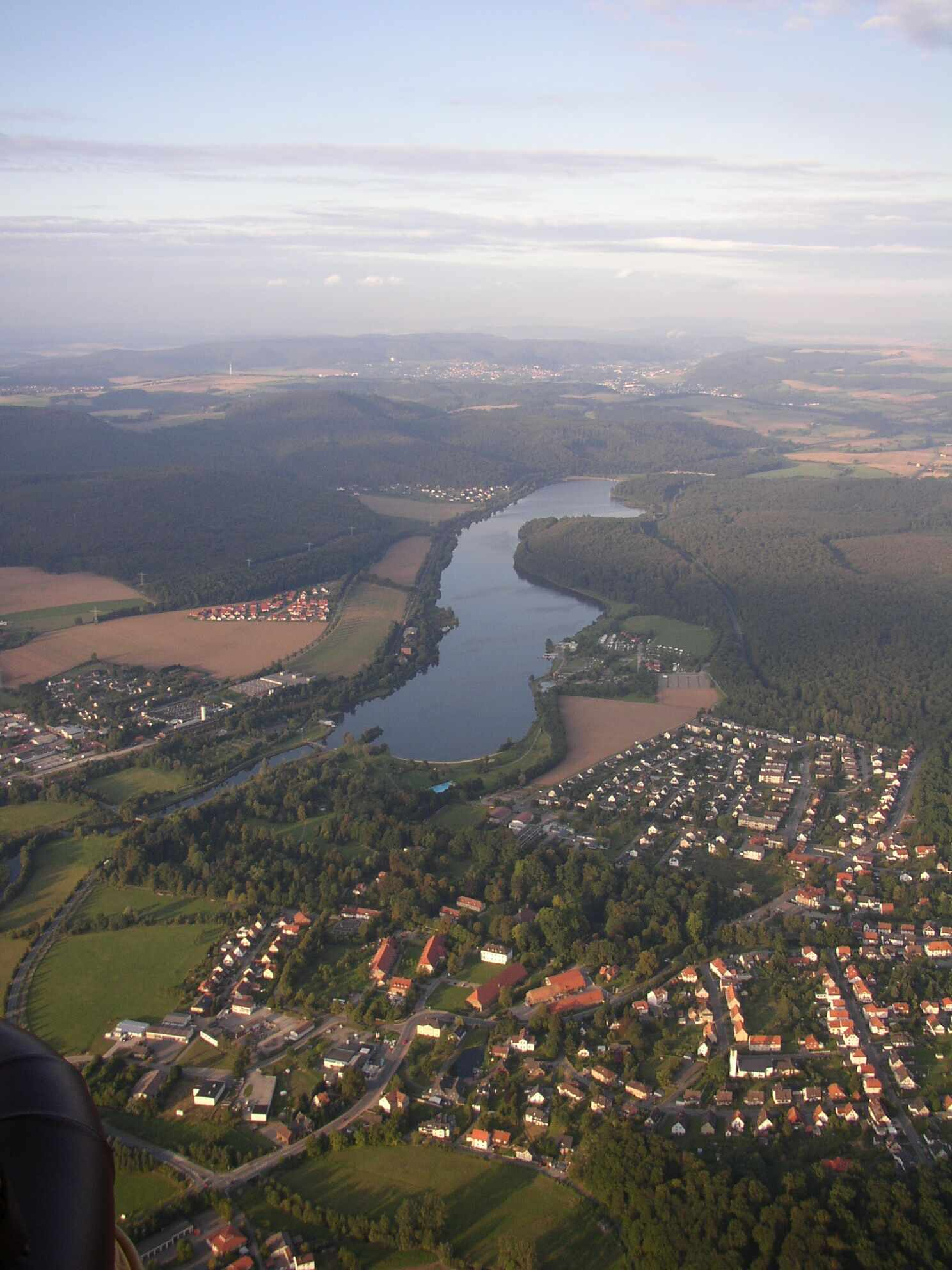 Lake Schieder (Emmerstausee) in Schieder-Schwalenberg, Lippe District, North Rhine-Westphalia, Germany.